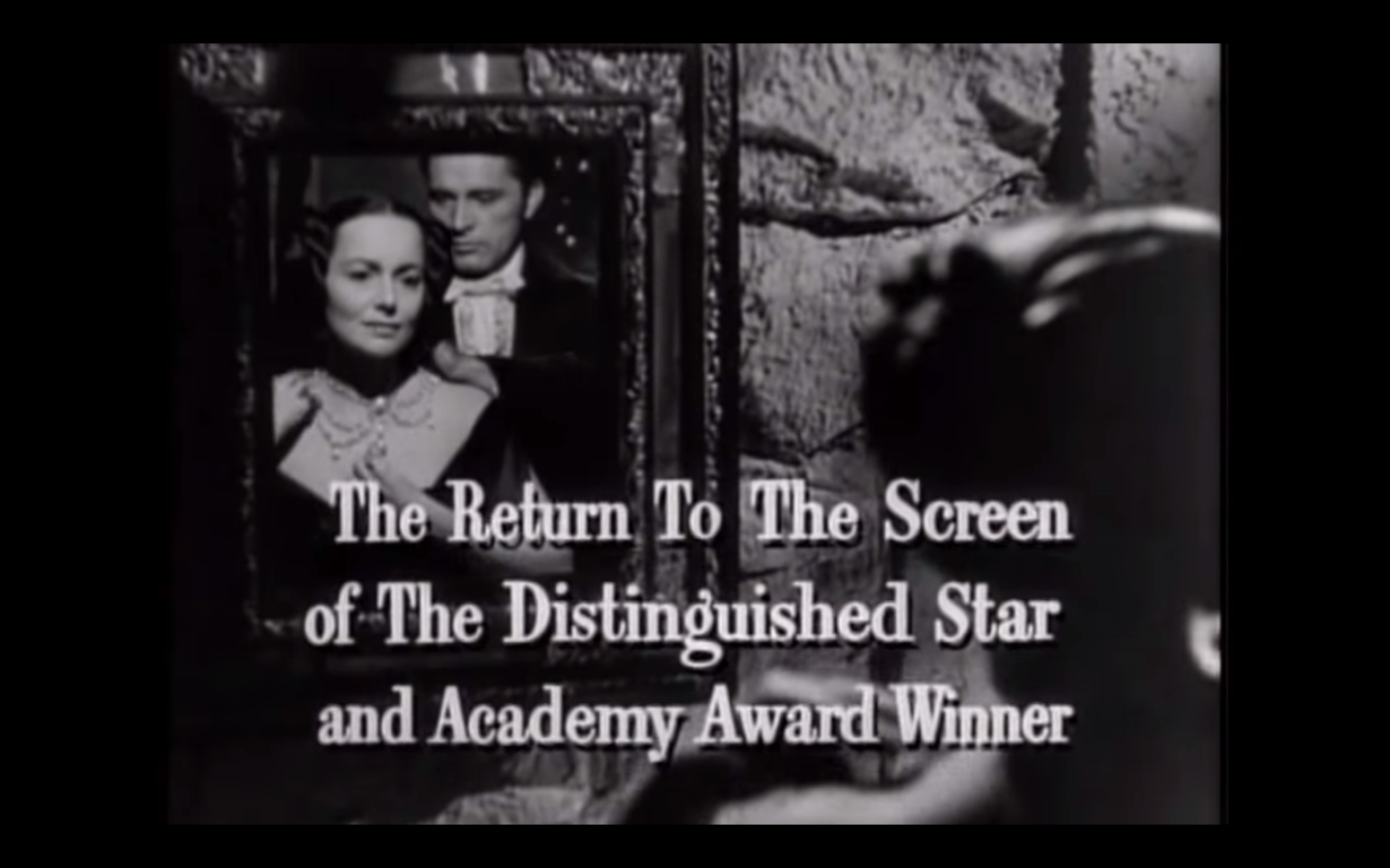 Trailer screenshot of My Cousin Rachel (1952)